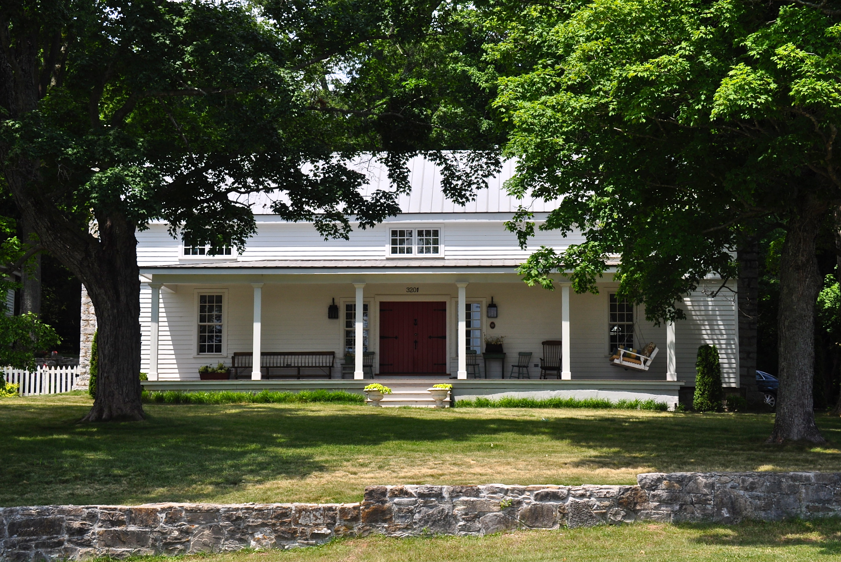 John Herbert House, Clovercroft Rd., 0.75 miles (1.21 km) east of Wilson Pike Franklin